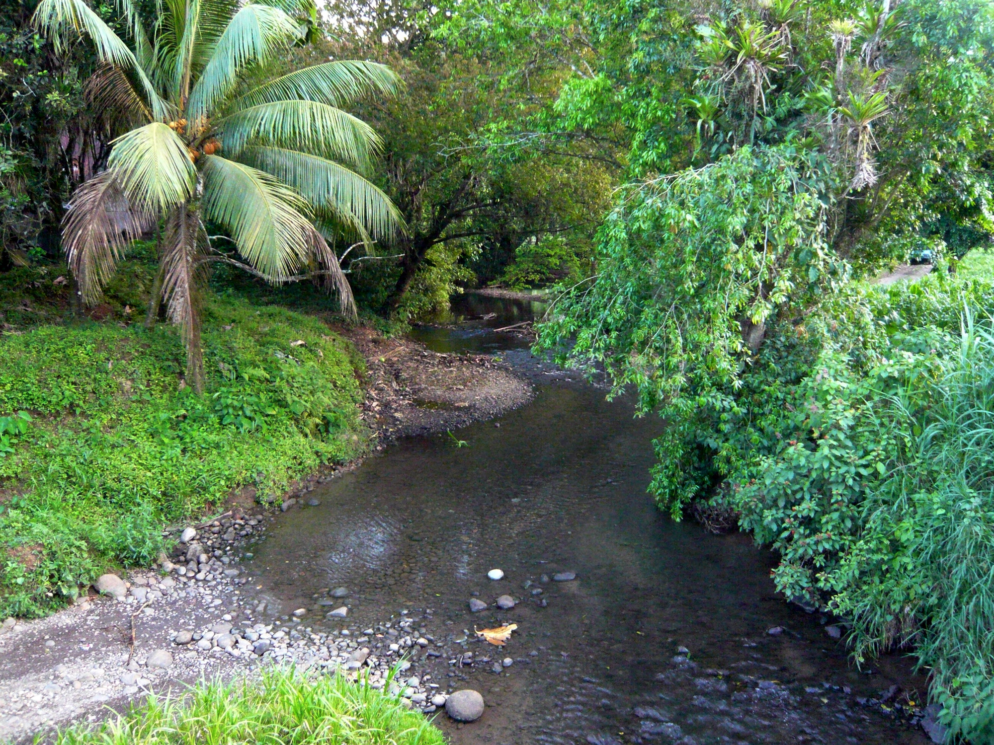 Tonjibe River in Guatuso, Costa Rica